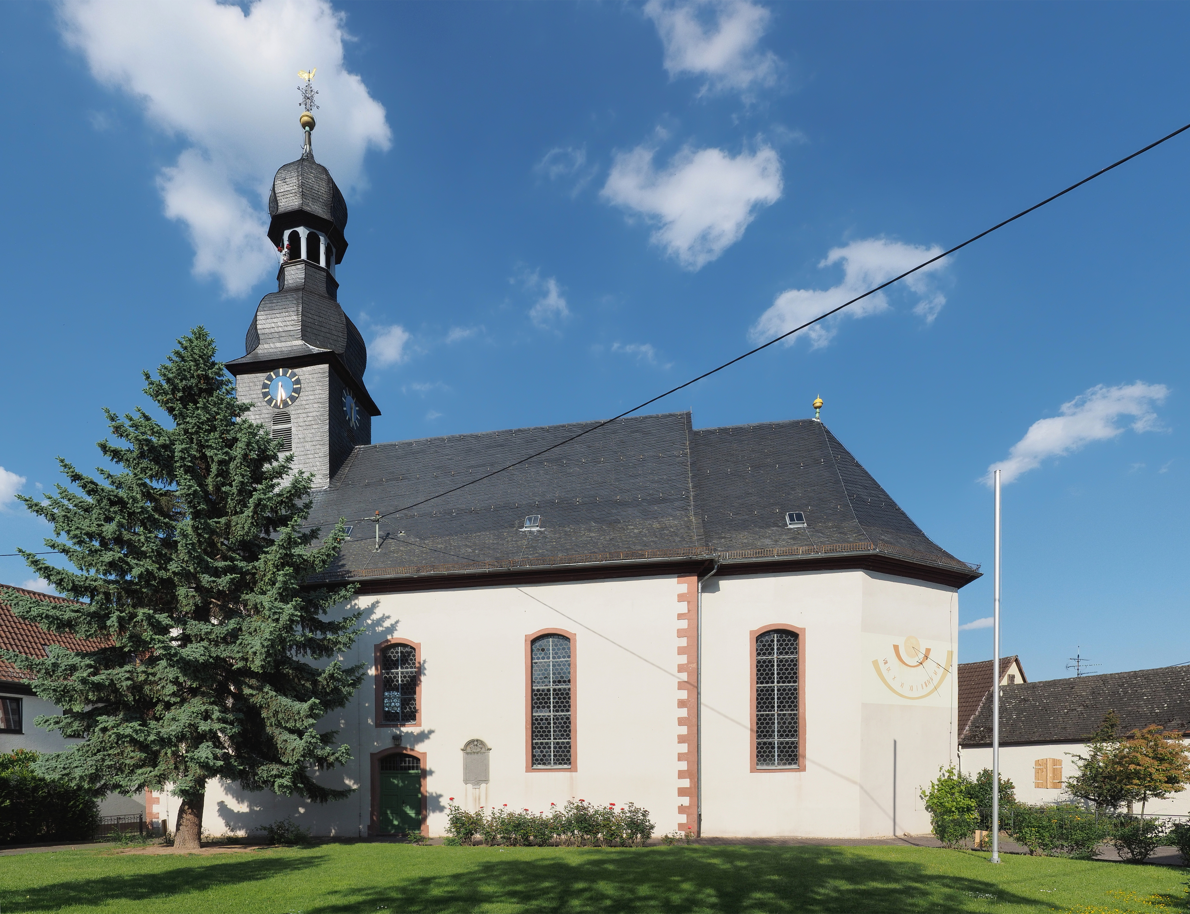 Hofheim-Wallau (Germany), Protestant Parish Church